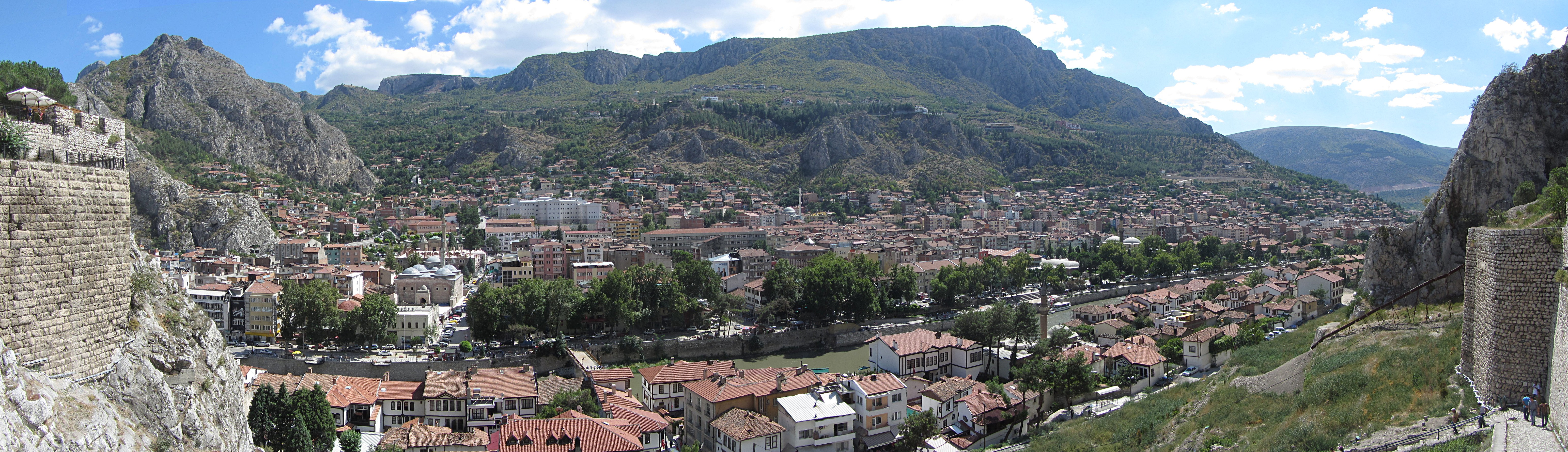 Panorama of Amasya made from the castle. Stiched from 4 photos with hugin.